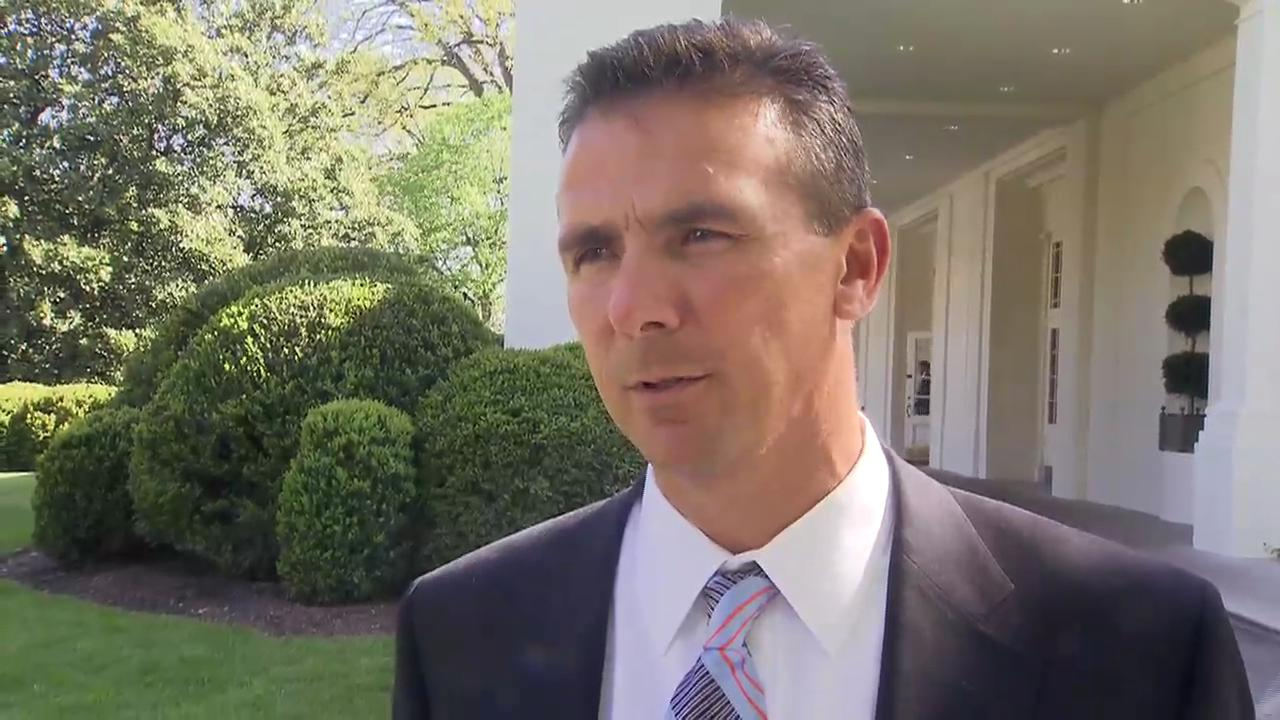 Florida Gators football head coach Urban Meyer talks about quarterback Tim Tebow's commitment to service during the national championship football team's visit to the White House. Screenshot of a White House video.